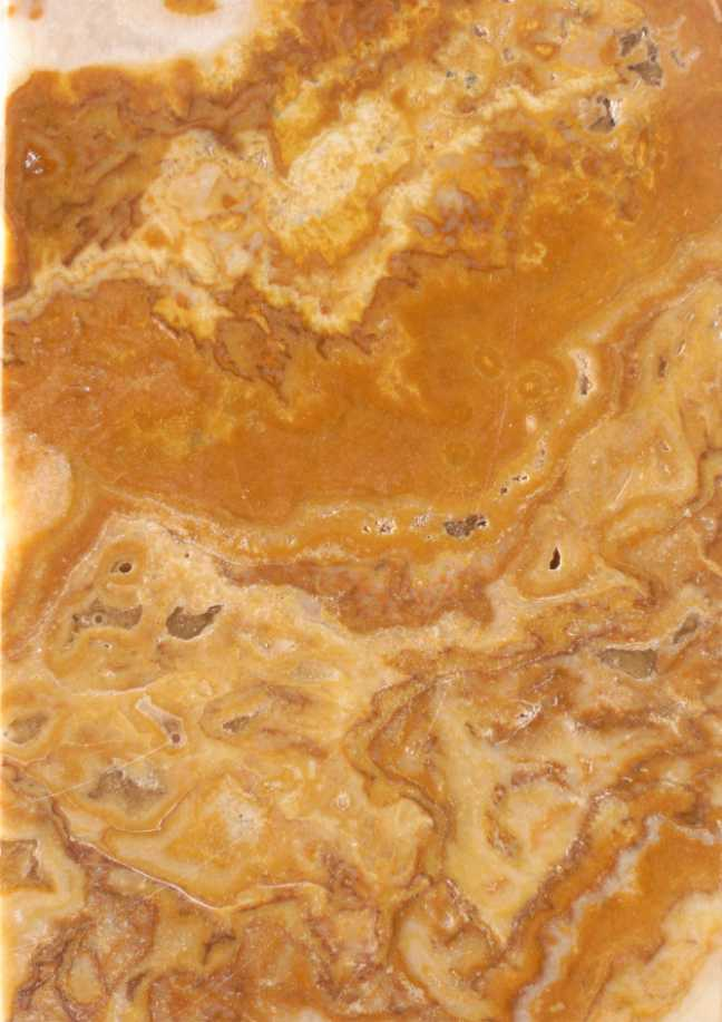 onyxmarble "Zlaty onyx", Levice (Slovakia)